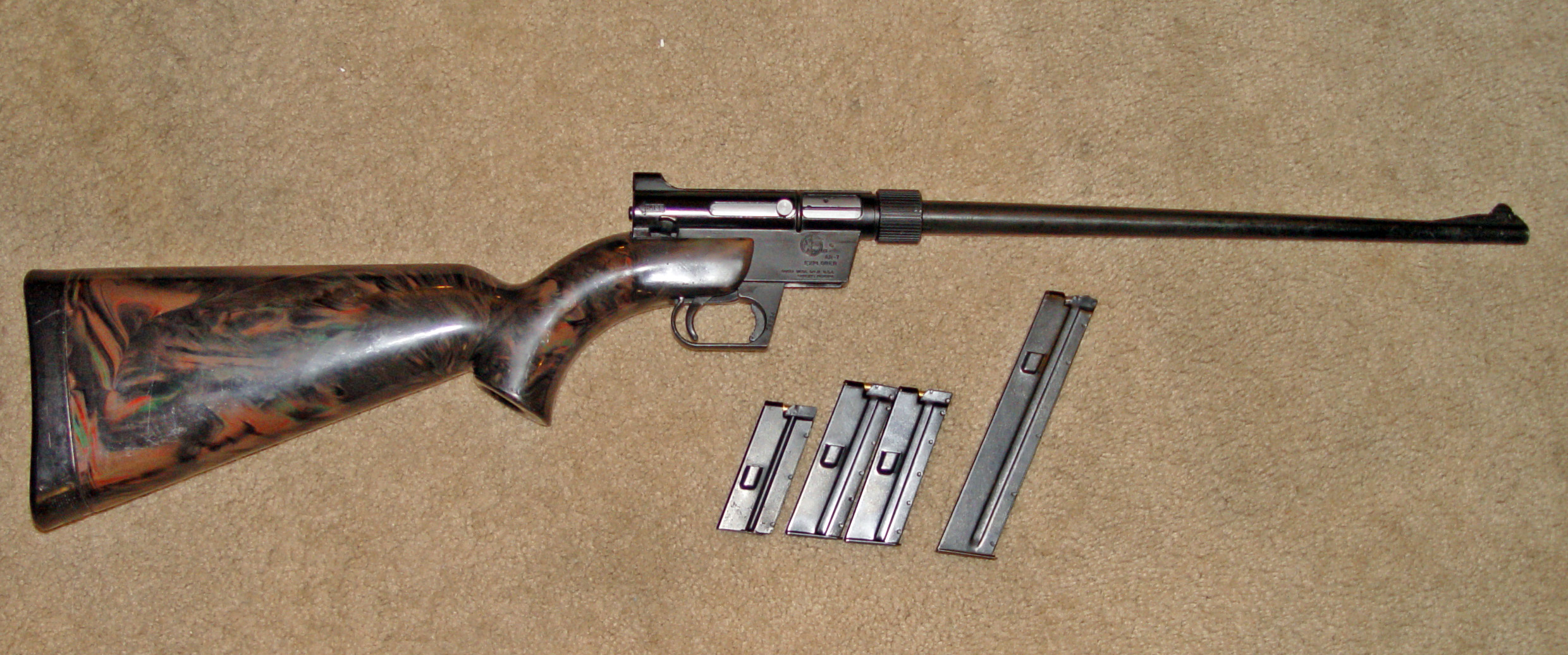 Pilot and aircrew survival weapon ArmaLite AR-7 Explorer